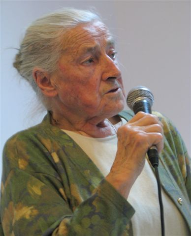 Wanda Półtawska (b. November 2, 1921 in Lublin, Poland) - Polish physician and publicist. She lives in Cracow, Poland